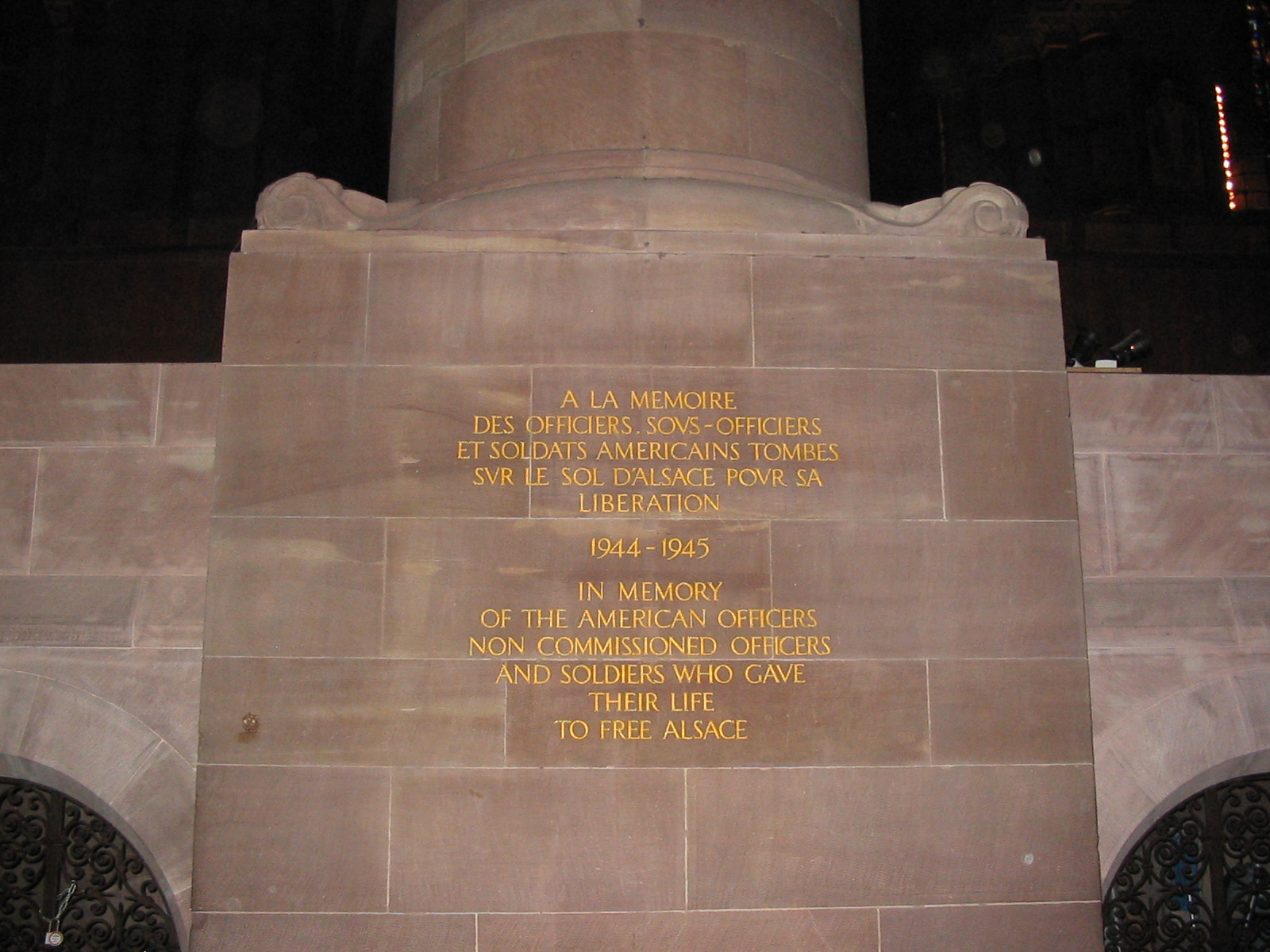 Memorial to fallen World War II U.S. troops inside the Strasbourg cathedral.